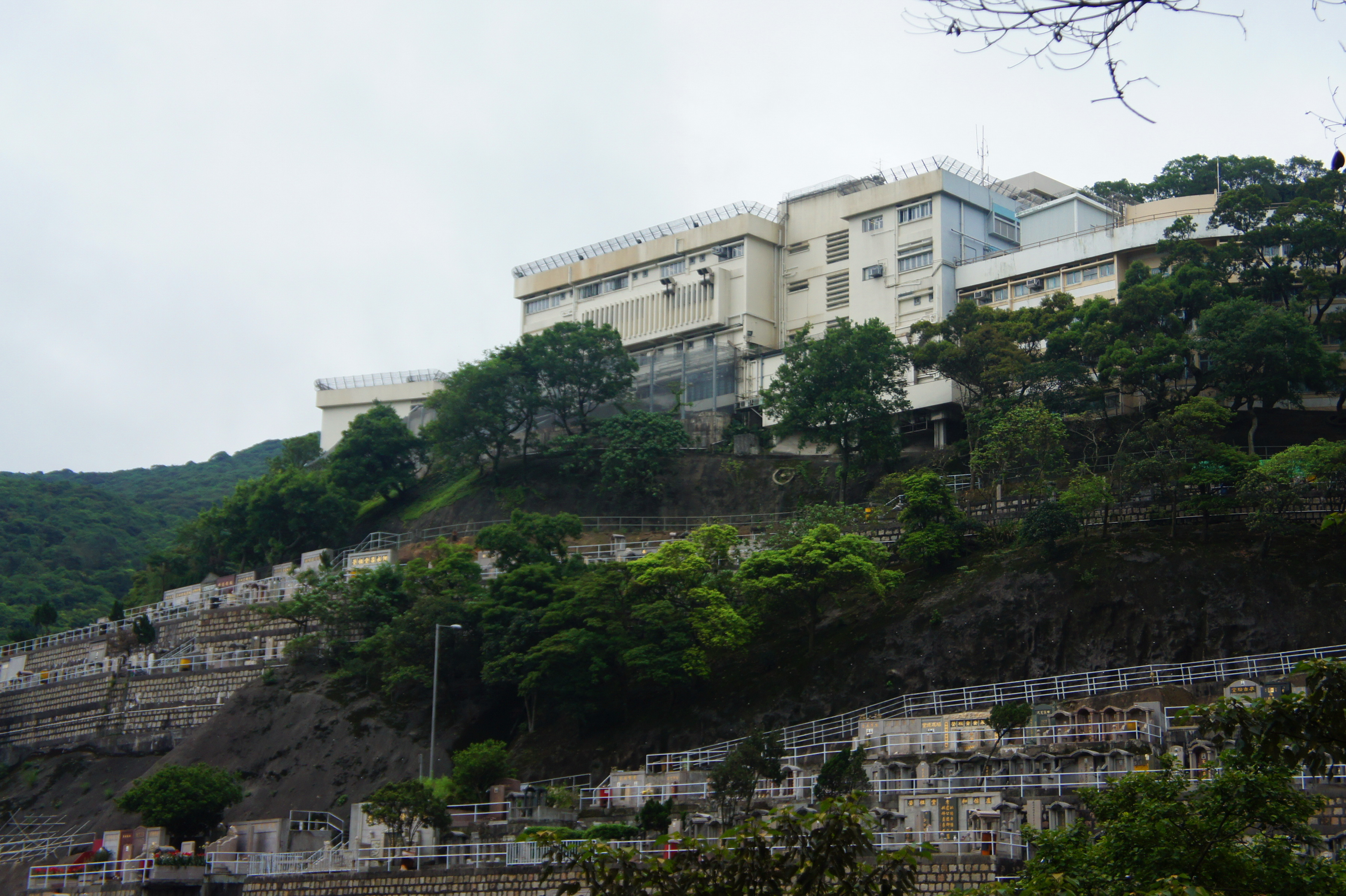 Lai Chi Rehabilitation Centre, 110 Shek O Road, Hong Kong.